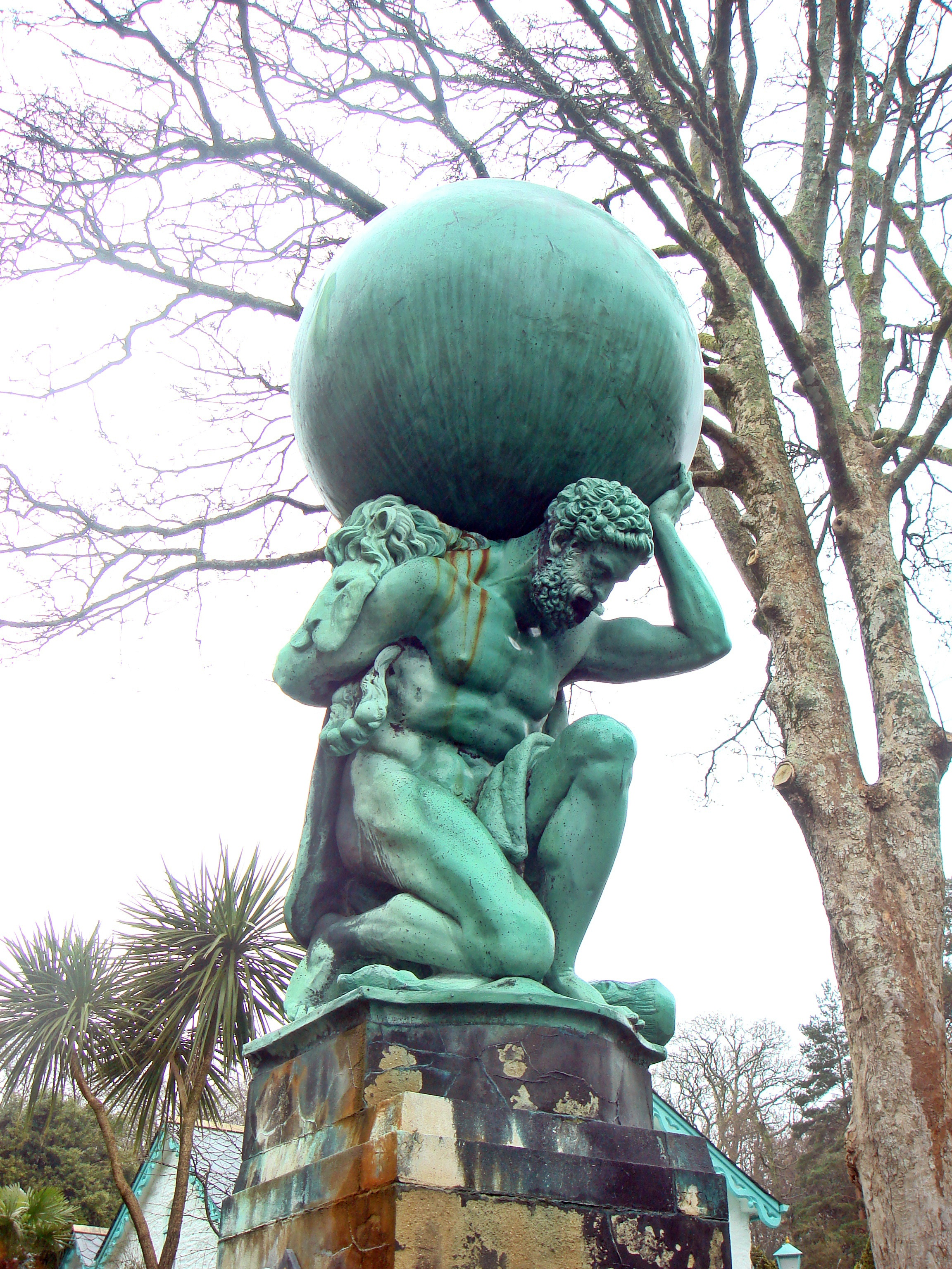 "Hercules", a bronze statue created by William Brodie around 1863, and located in Portmeirion, Wales, where it was brought in 1960 by Sir Clough Williams-Ellis.